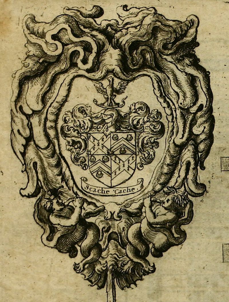 The coat of arms of the English Backhouse family (notable members include merchant Samuel Backhouse, royalist John Backhouse, alchemist William Backhouse, countess Flower Backhouse & others). From Sir William Dugdale's 1658 The history of St. Pauls cathedral in London. William Backhouse was a benefactor of St. Paul's Cathedral and so is recorded in the book.